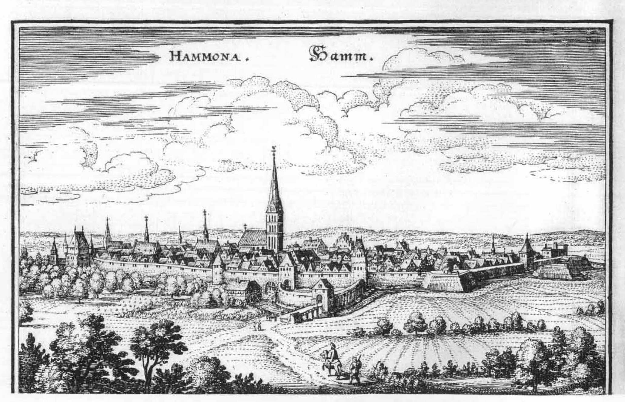 This is a scan of the historical document: Source